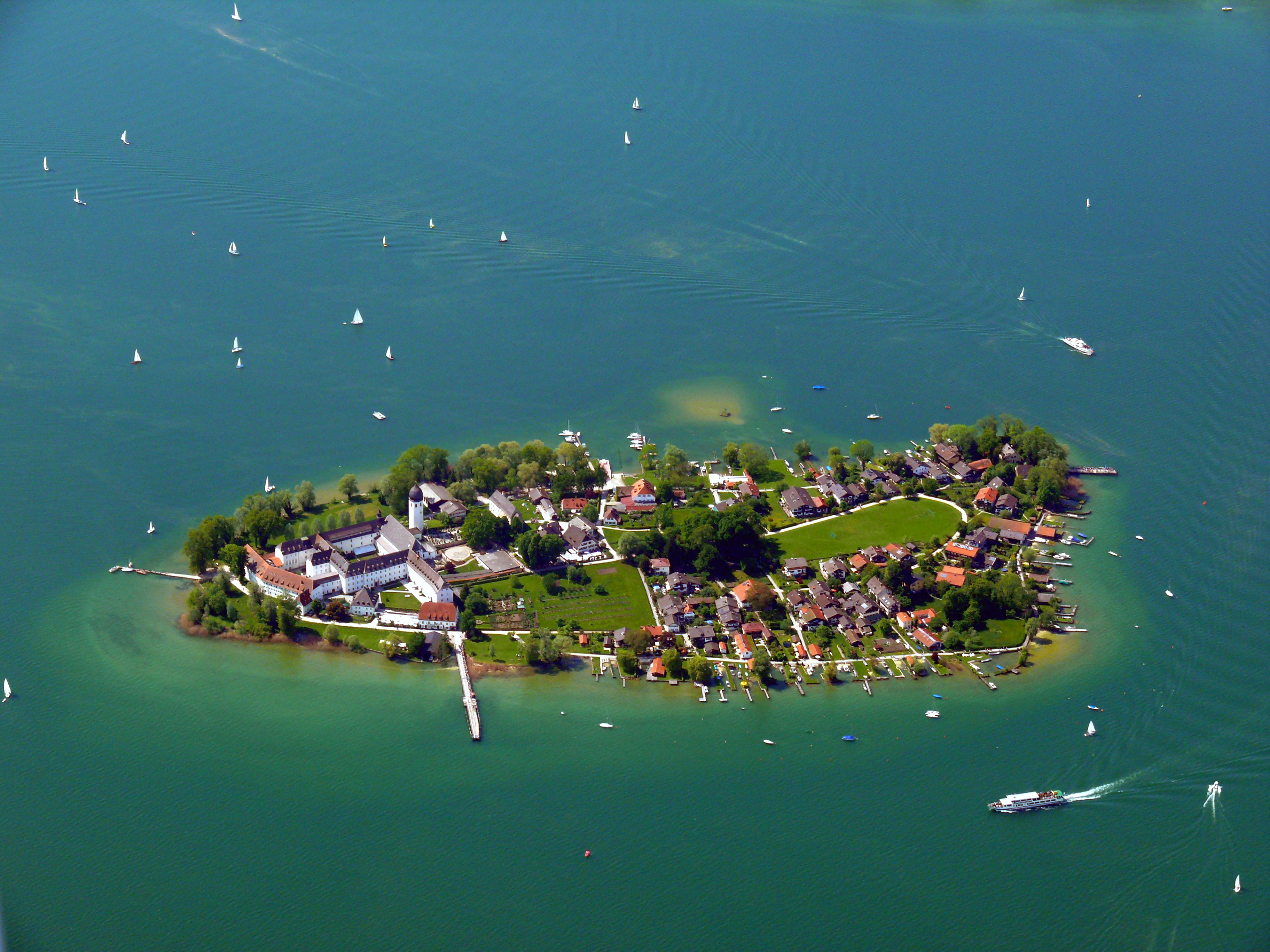 Fraueninsel